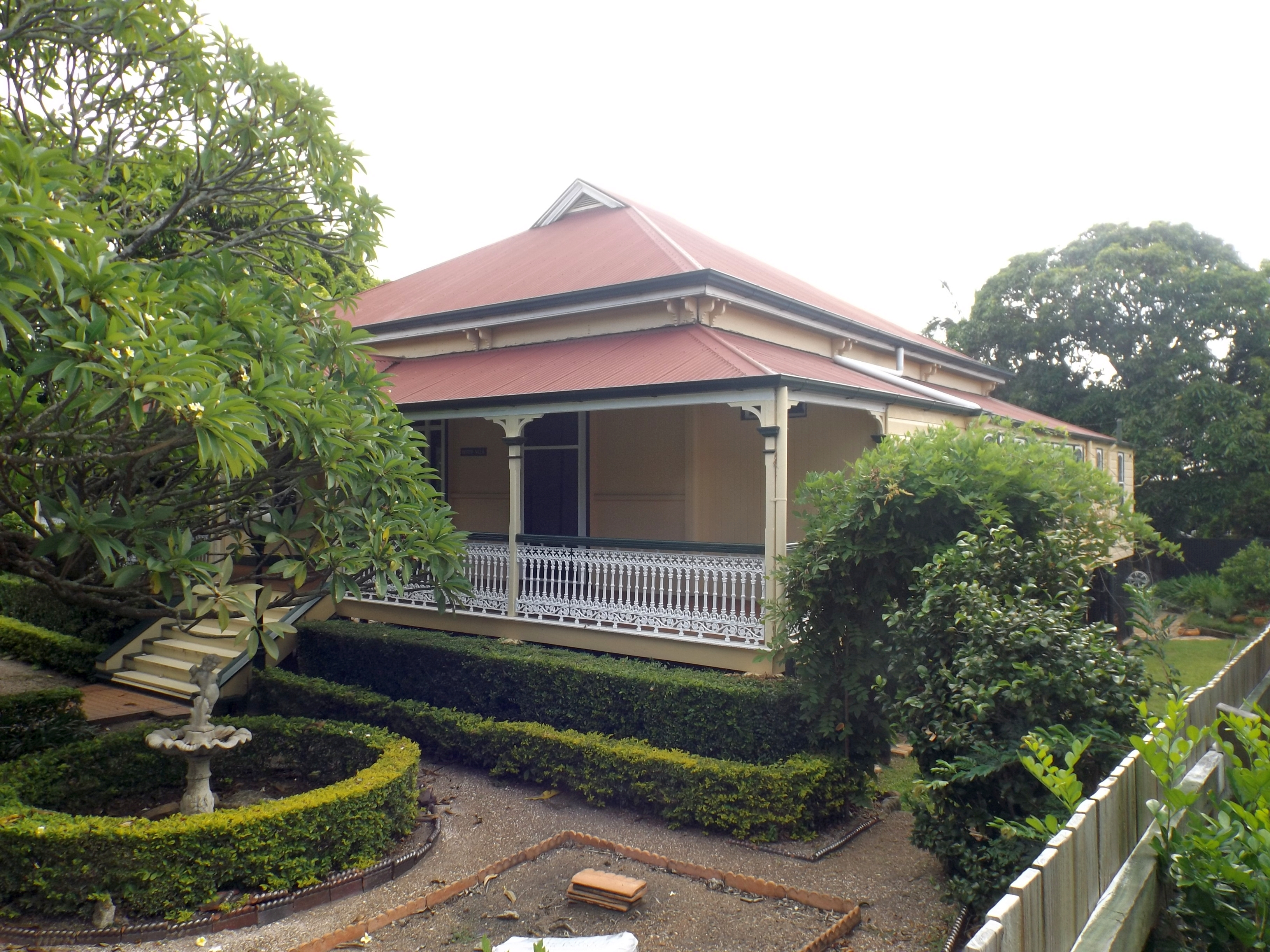 Photo of Hester Villa at East Brisbane, Brisbane, Queensland, Australia.